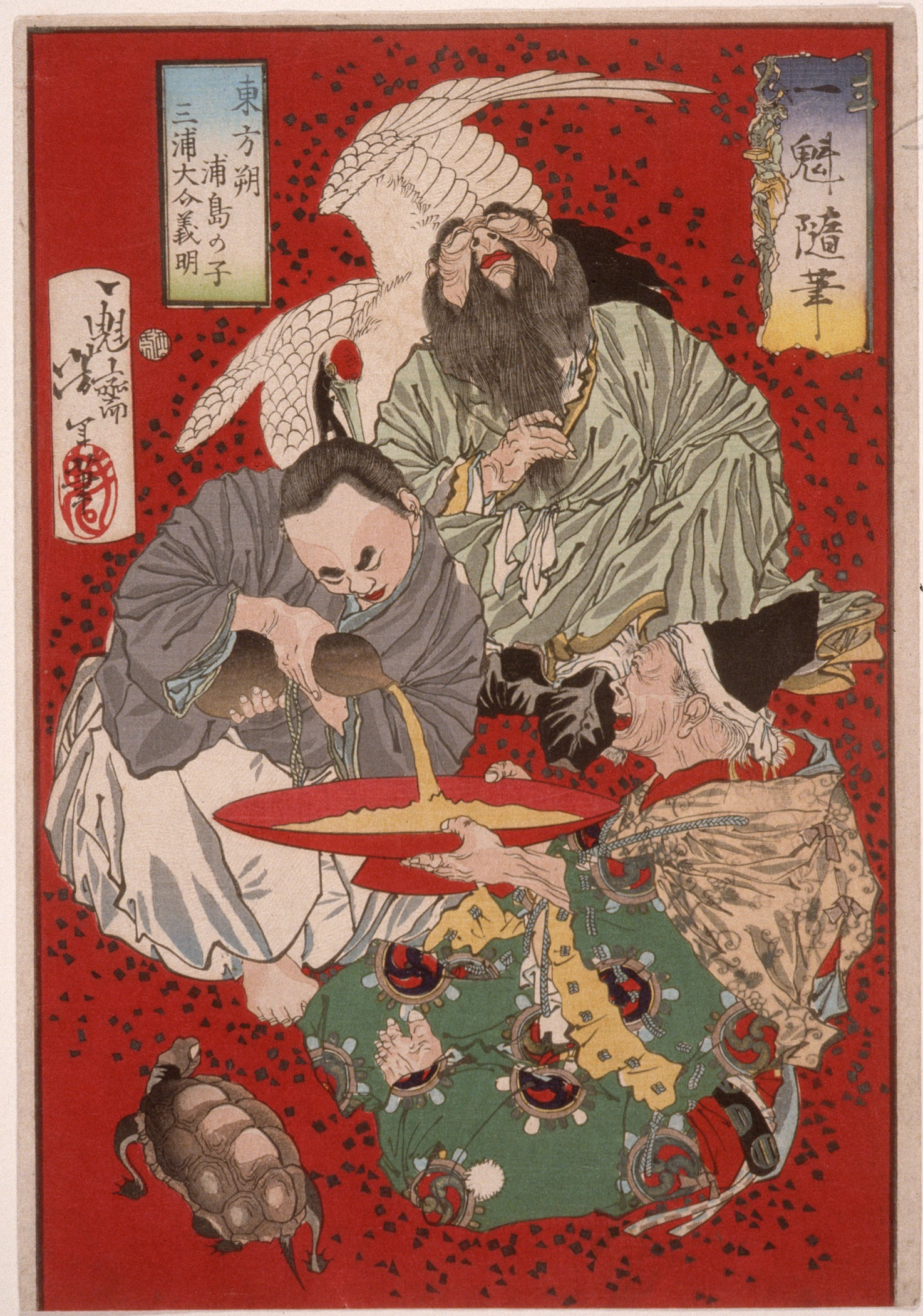 Japan, 1873, 1st month Series: Notes by Yoshitoshi Prints; woodcuts Color woodblock print Herbert R. Cole Collection (M.84.31.51) Japanese Art 長寿で知られる東方朔、浦島太郎、三浦義明が酒を酌み交わすの図。月岡芳年「一魁随筆」シリーズの一作。 Tōbōsaku（Dongfang Shuo), Miura Yoshiaki and Urashima Taro, all three lived long. The crane and the turtles are symbols of longevity in Japan.